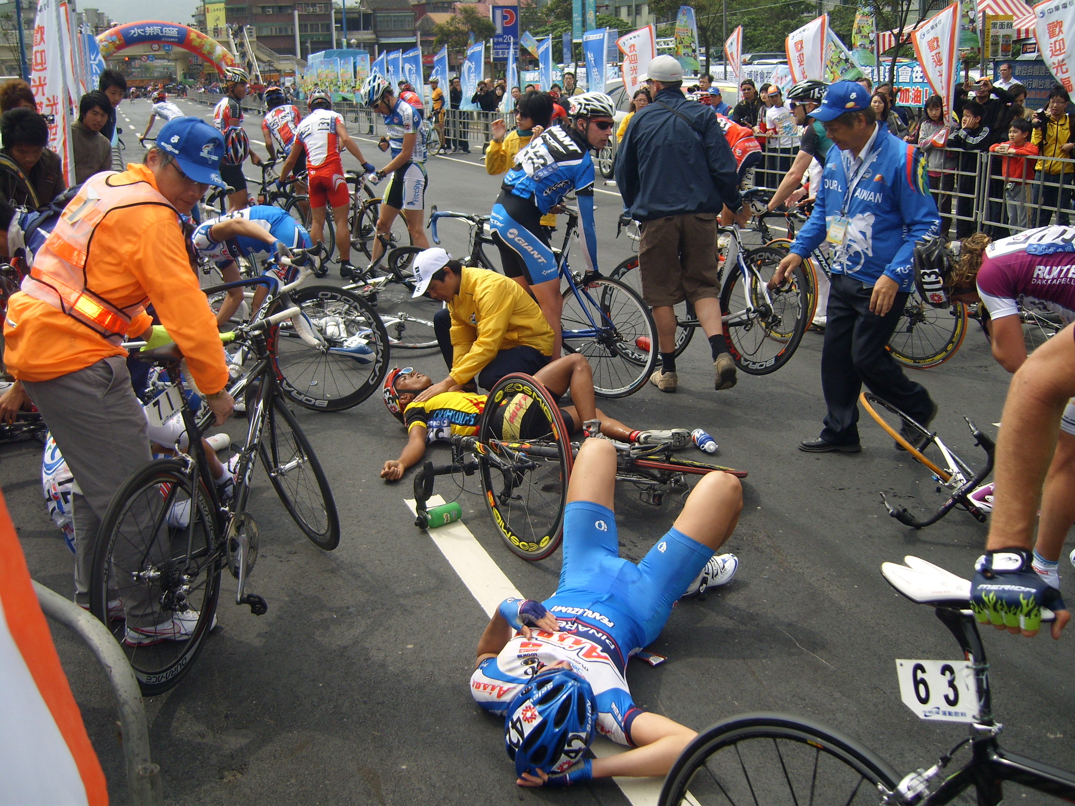 2008 Tour de Taiwan TWTC Nangang Stage: A DAMN serious crash near the 30th lap.